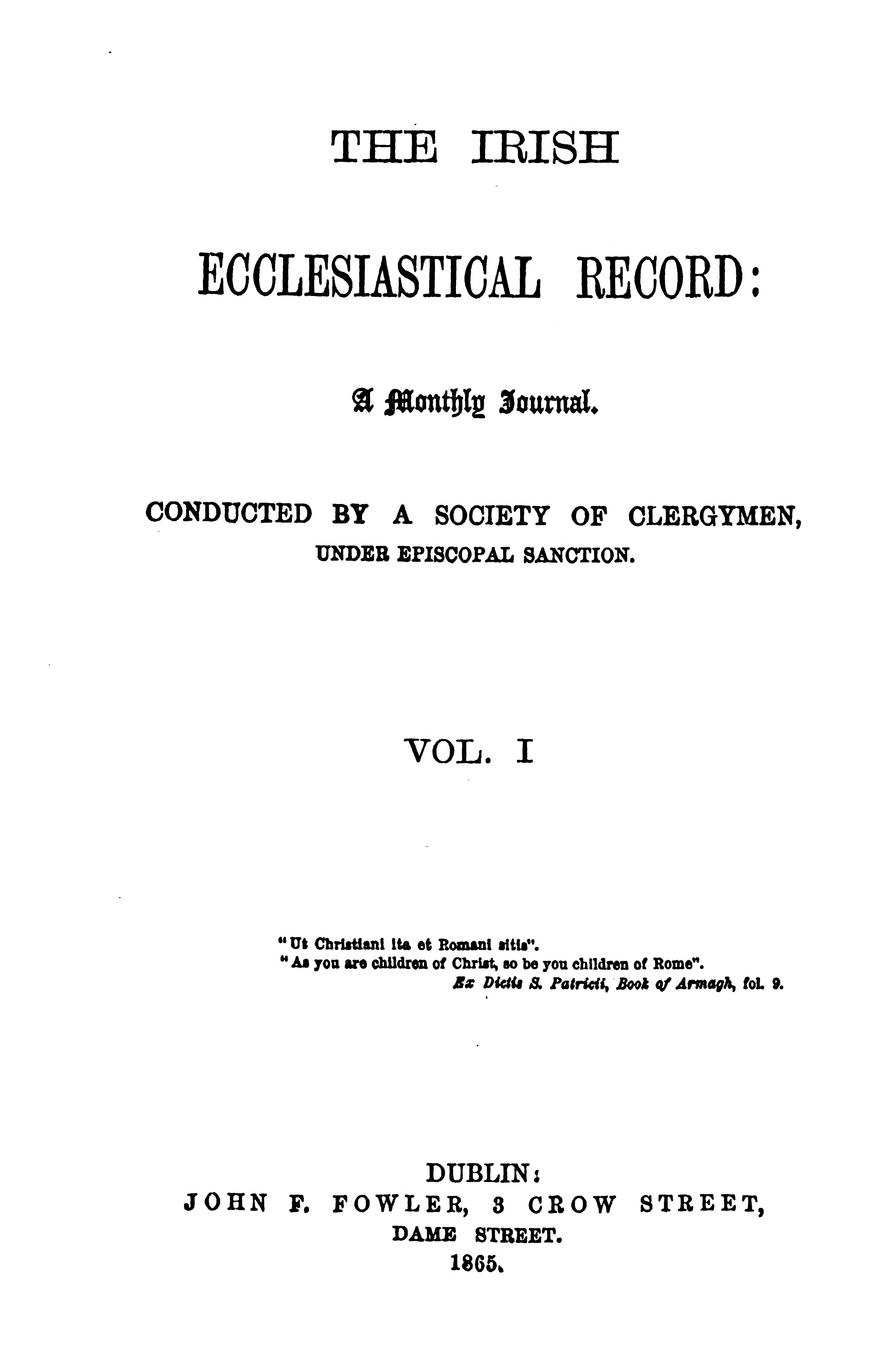 Irish Ecclesiastical Record, Volume 1, 1865